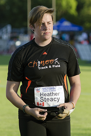 Picture of Heather Steacy